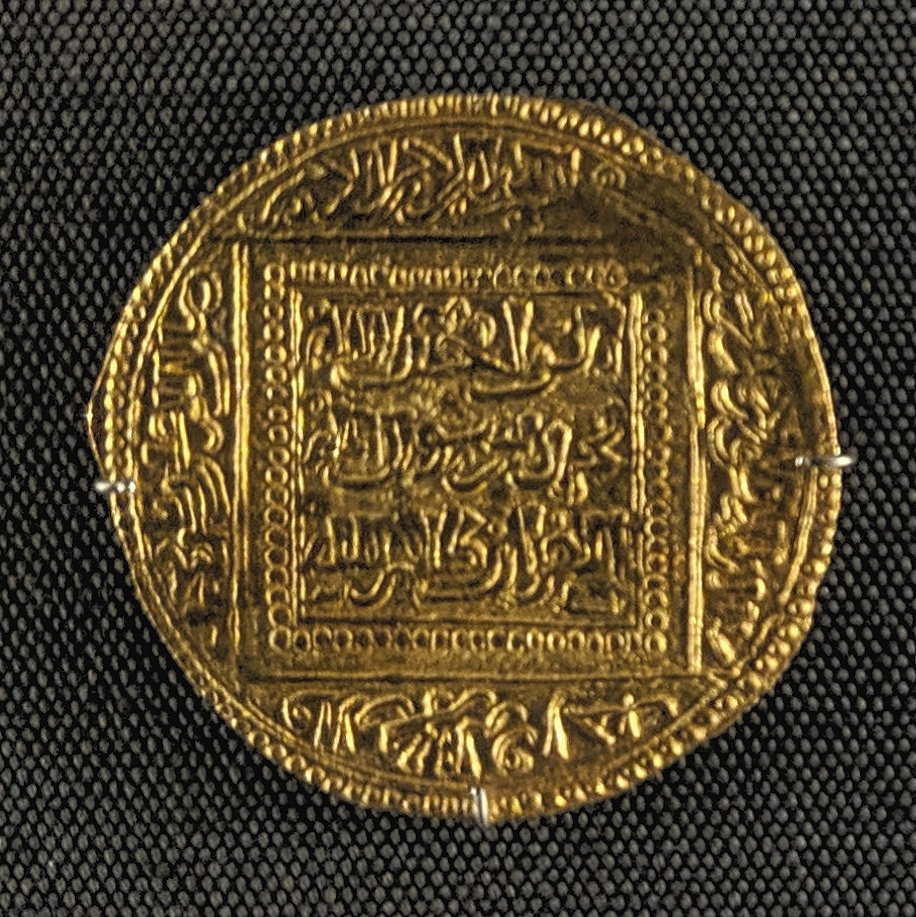 Gold dinar of Abu Yahya Abu Bakr ibn ‘Abd al-Haqq I, (642-656 H/1244-1258 AD), struck in Fez, c. 642-656 H (1244-1258 AD) Photograph taken by me in the David Museum. More information about this coin